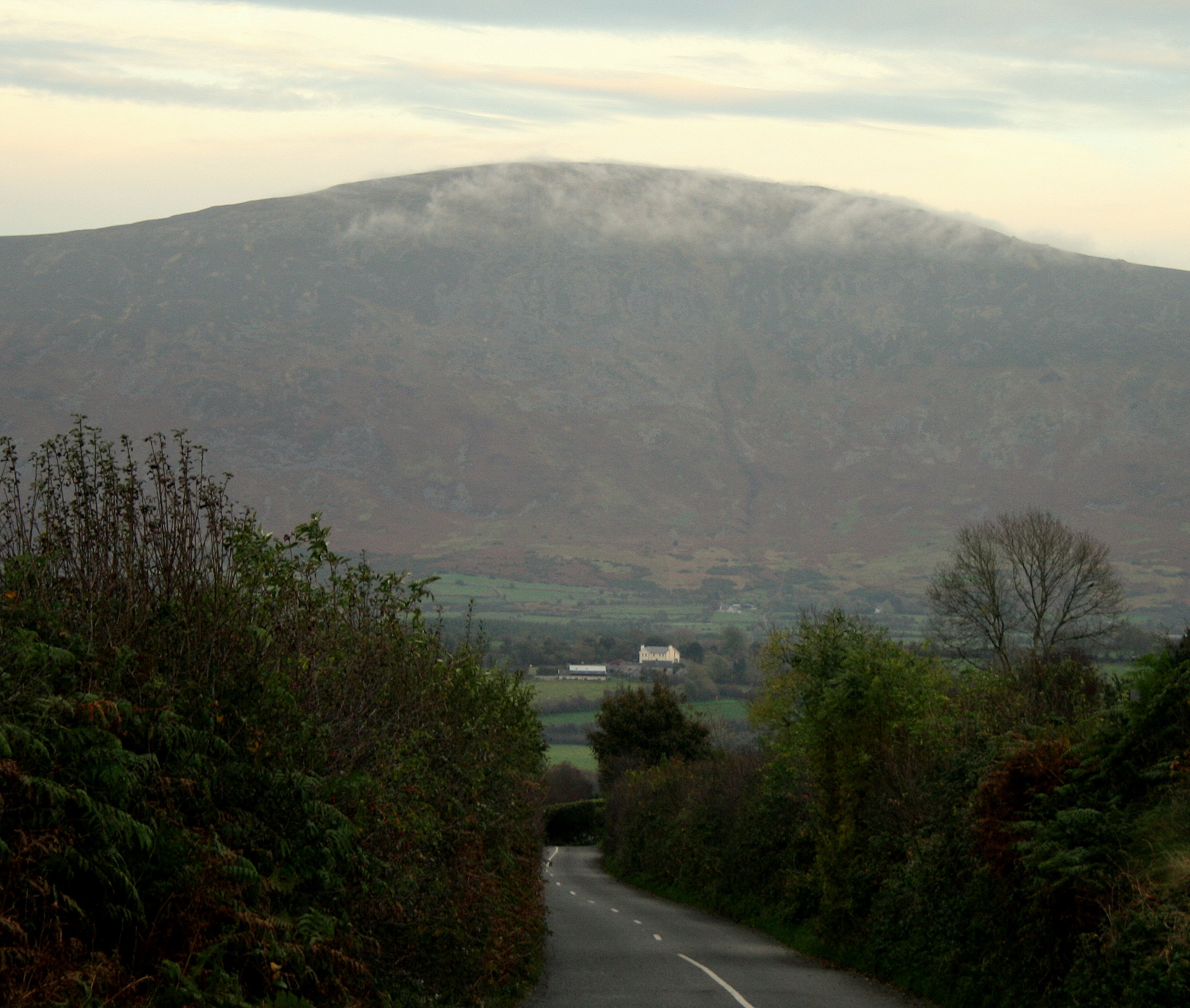 Blackstairs Mountain overlooking Ballymurphy, County Carlow